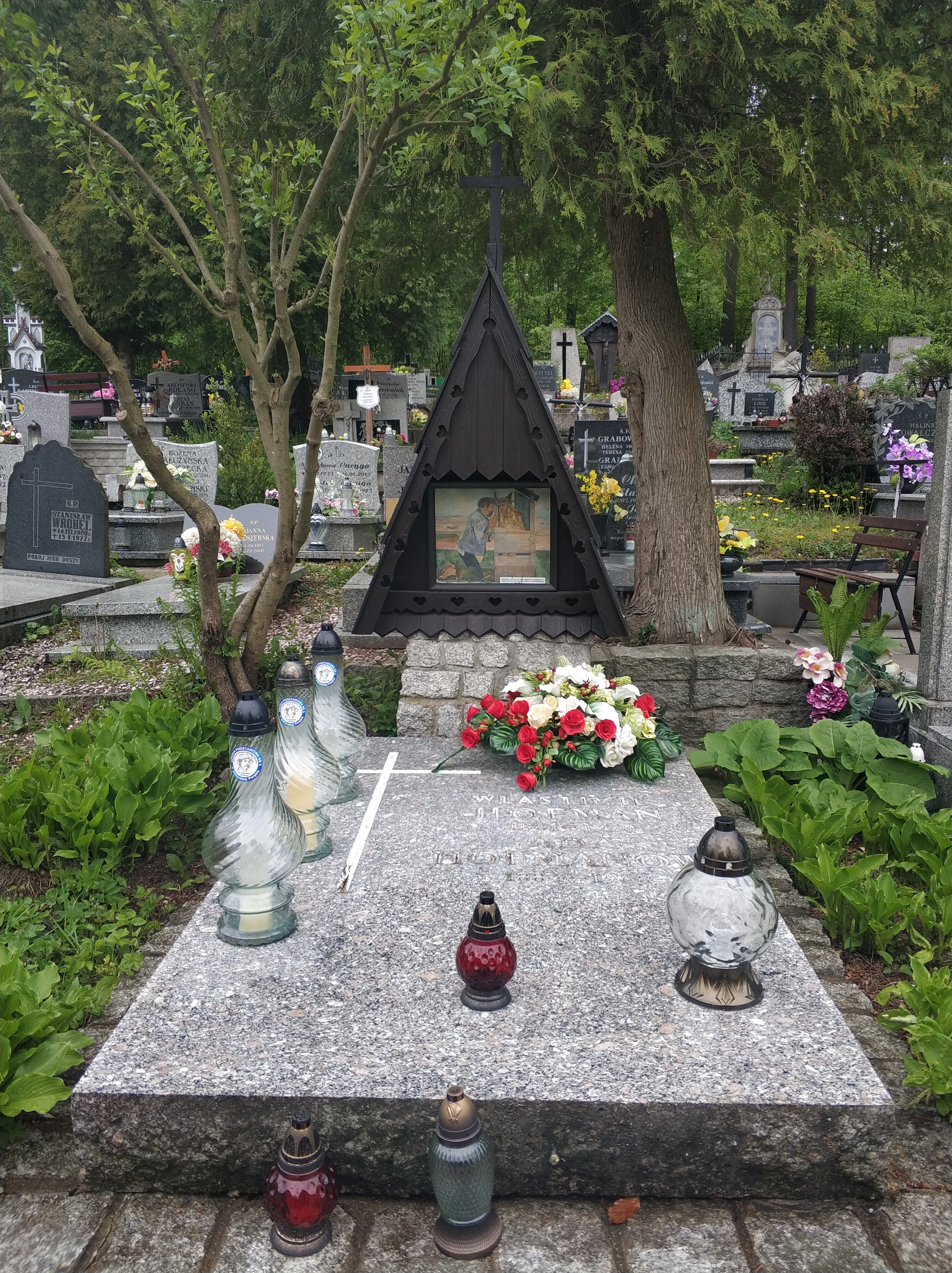 The picture shows the grave where Wlastimil and Ada Hofman were buried. In the tomb there is a characteristic mountain chapel with a copy of one of Wlastimil's most popular paintings "Confession".